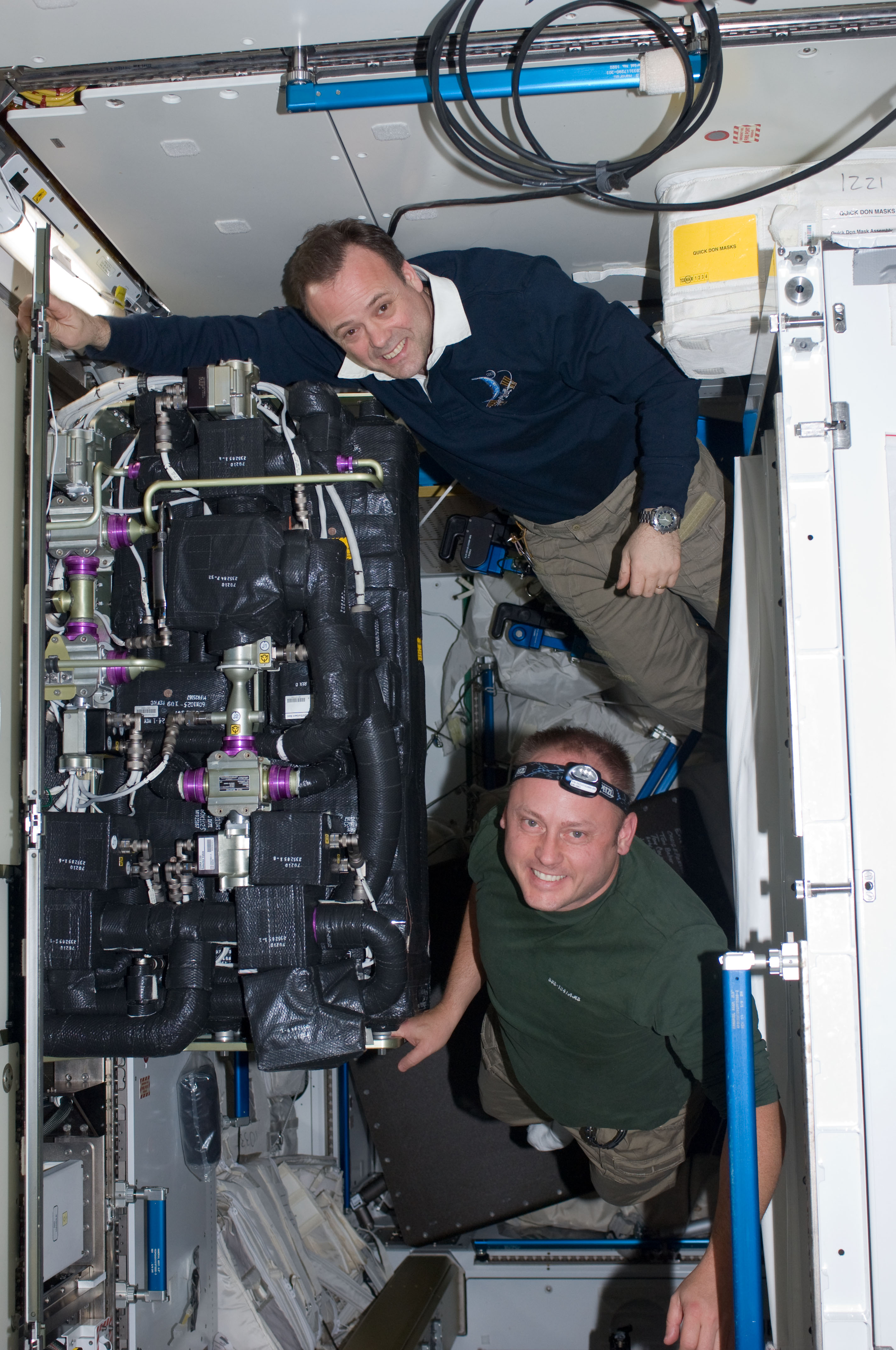 NASA astronauts Michael Fincke (bottom), STS-134 mission specialist; and Ron Garan, Expedition 28 flight engineer, perform maintenance on the Carbon Dioxide Removal Assembly (CDRA) in the Air Revitalization 2 (AR2) rack in the Tranquility node of the International Space Station while space shuttle Endeavour remains docked with the station.